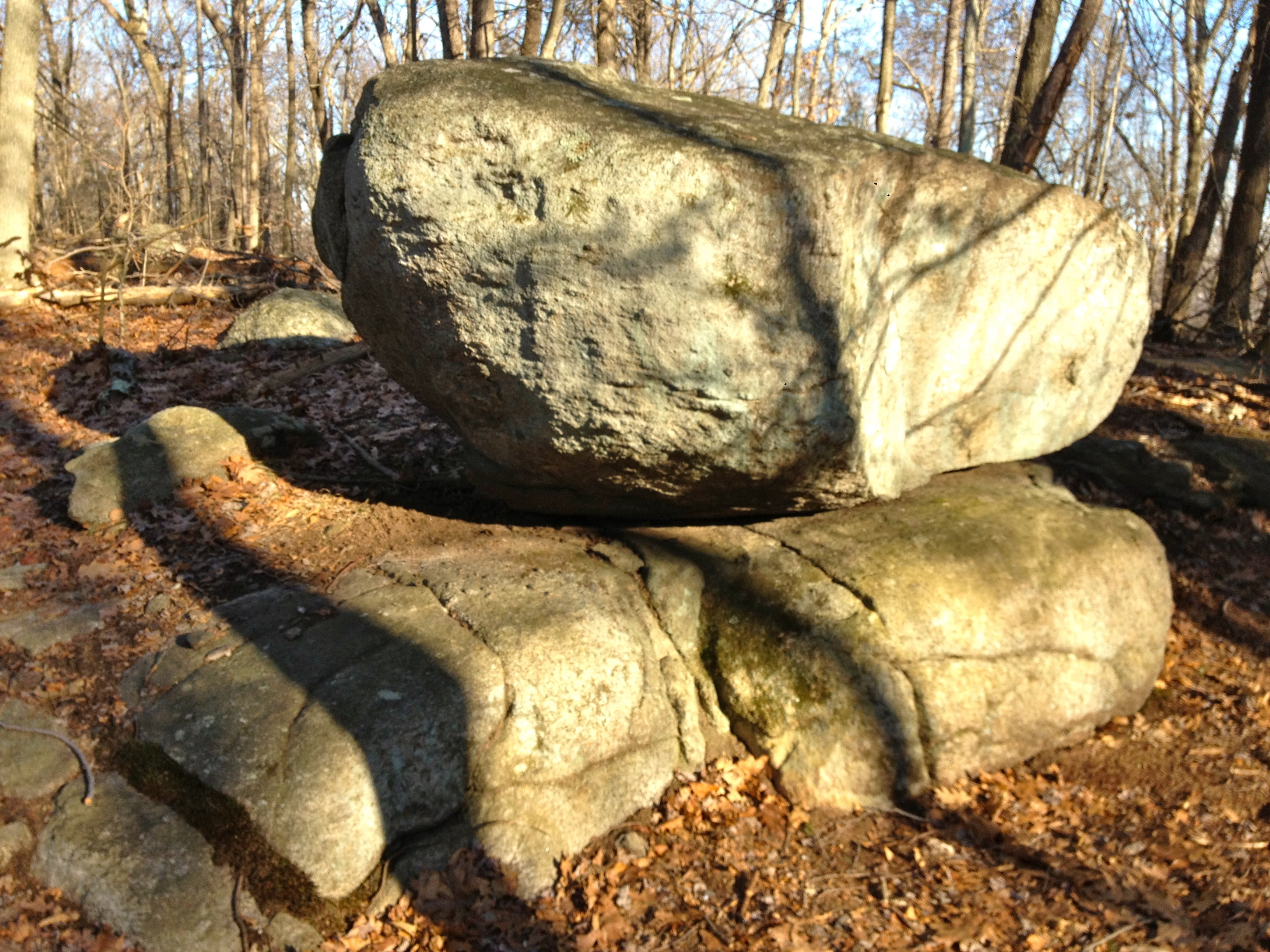 Erratic formation. Osbornedale State Park.